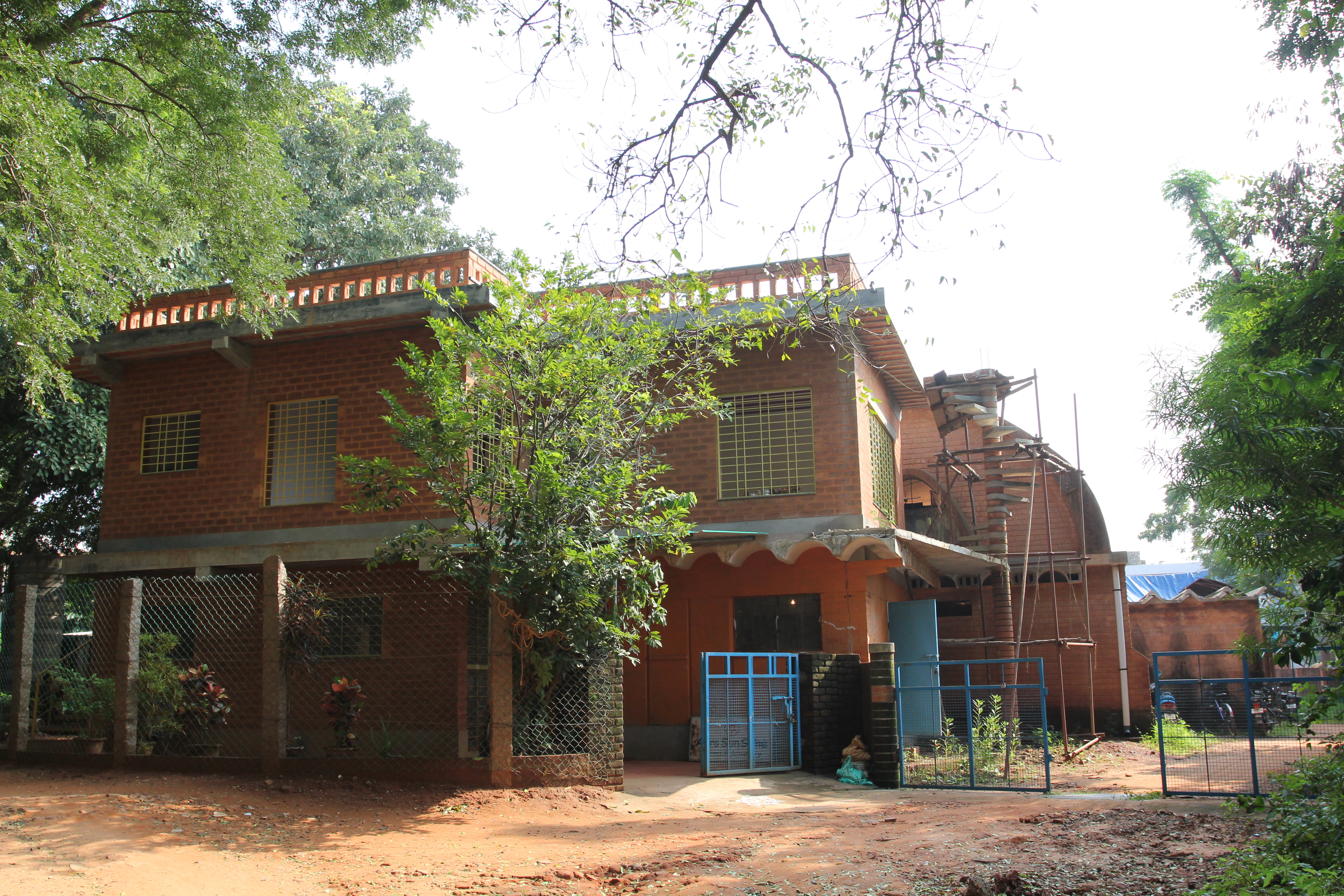 The building of the Auroville Earth Institute.